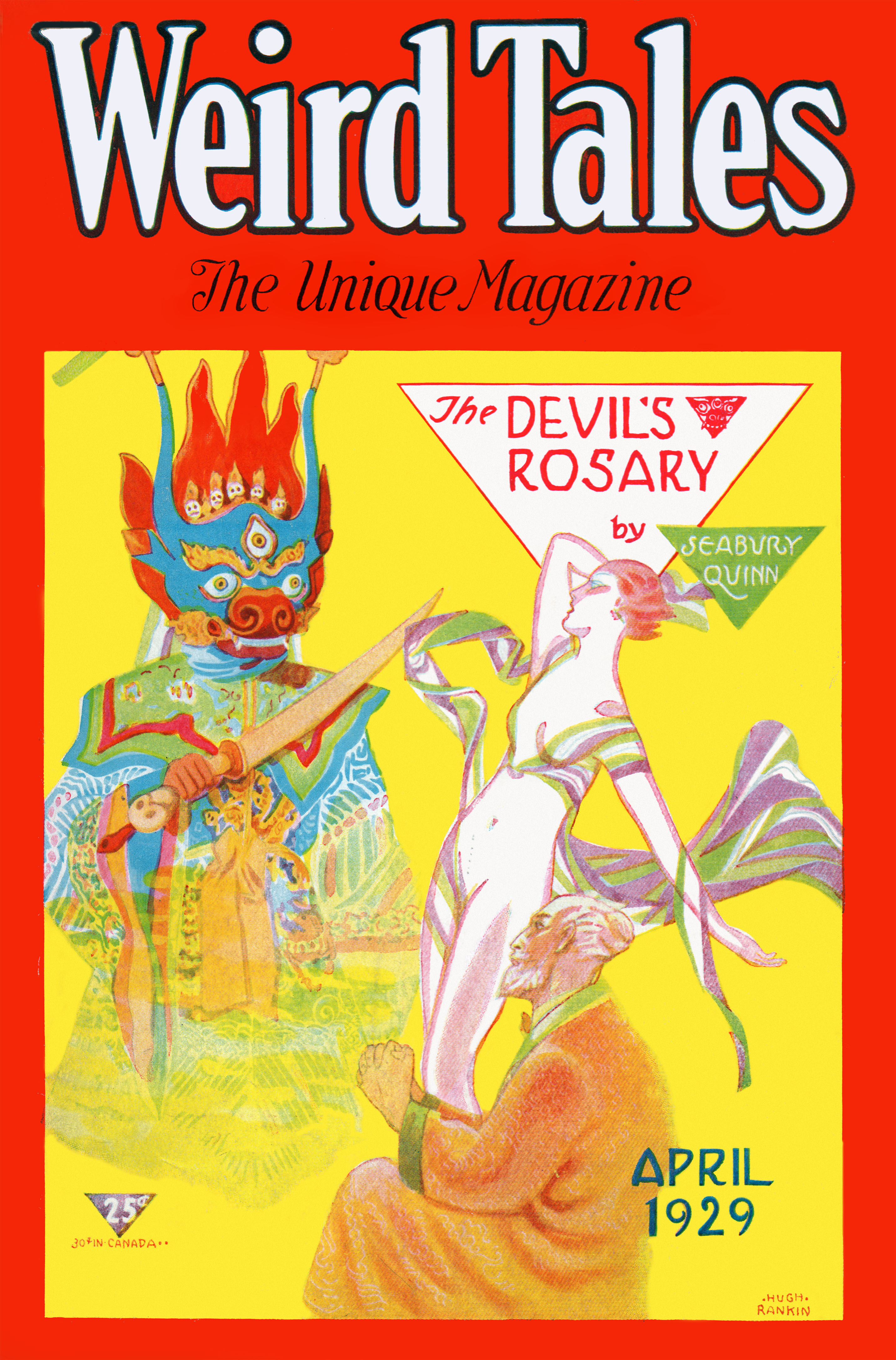 Cover of the pulp magazine Weird Tales (April 1929, vol. 13, no. 4) featuring The Devil's Rosary by Seabury Quinn. Cover art by Hugh Rankin.